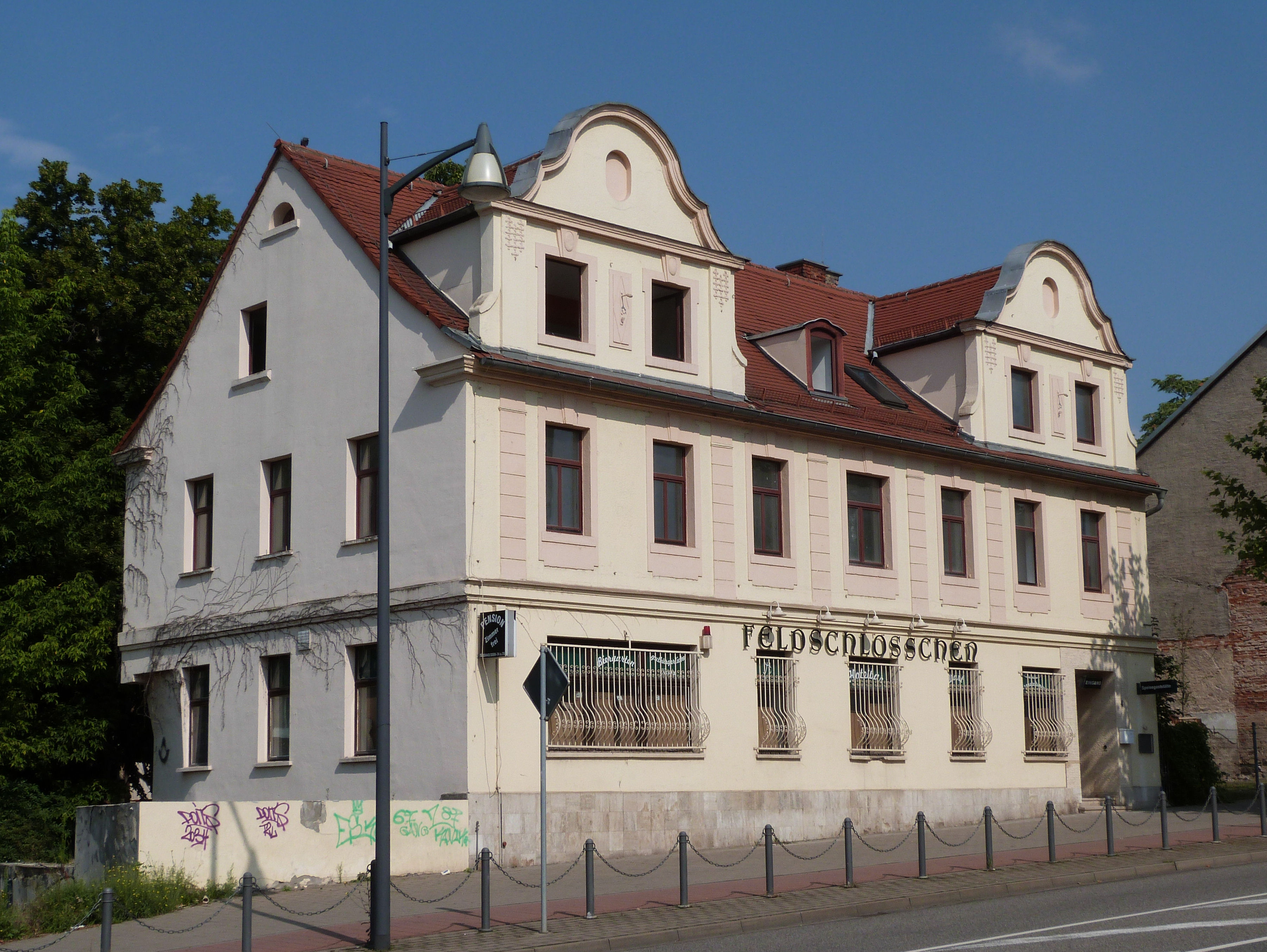 Hotel Feldschlösschen, Merseburger Strasse No. 4, Weissenfels, Saxony-Anhalt